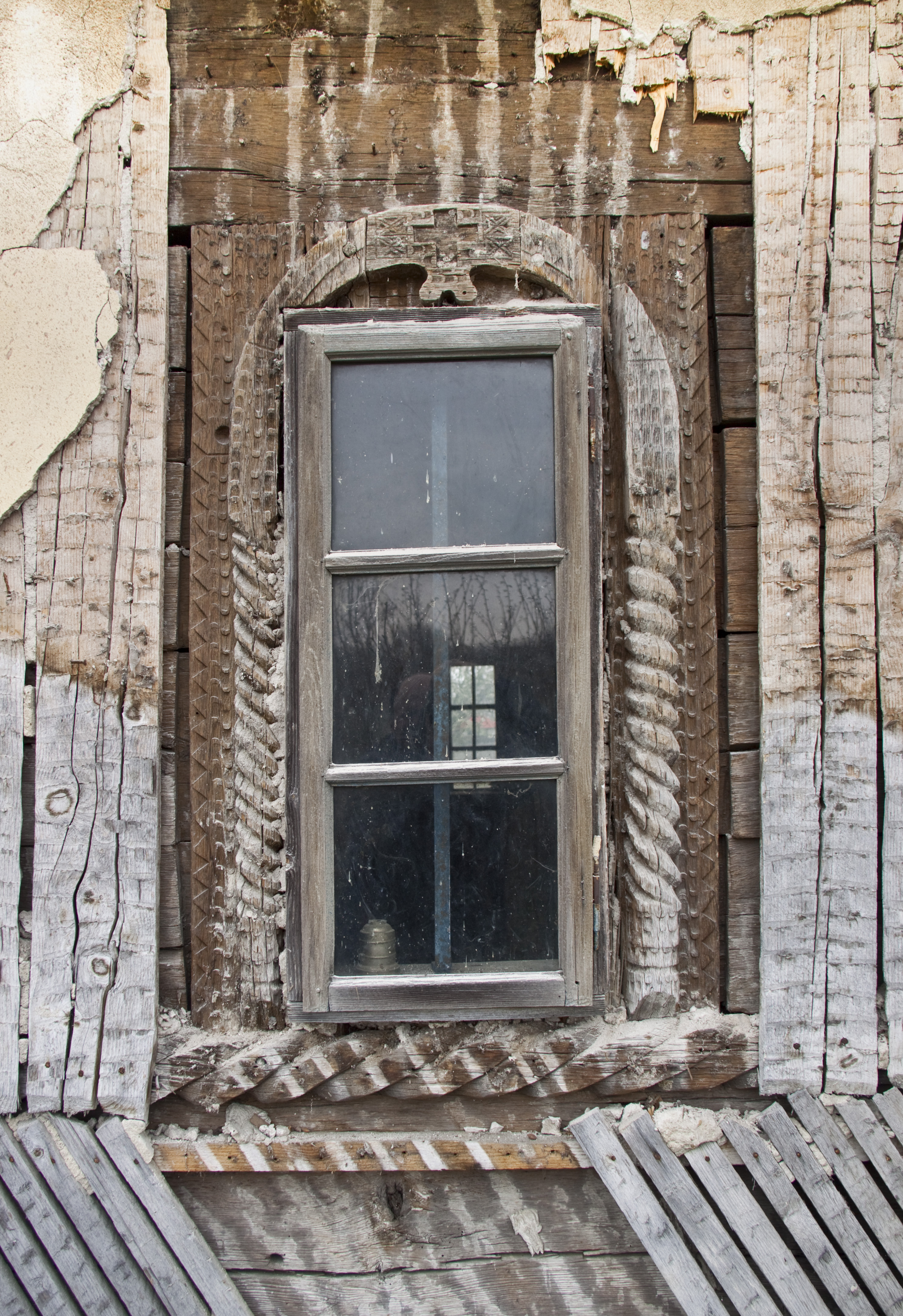 Cerşani, Argeş county, Romania: the wooden church.